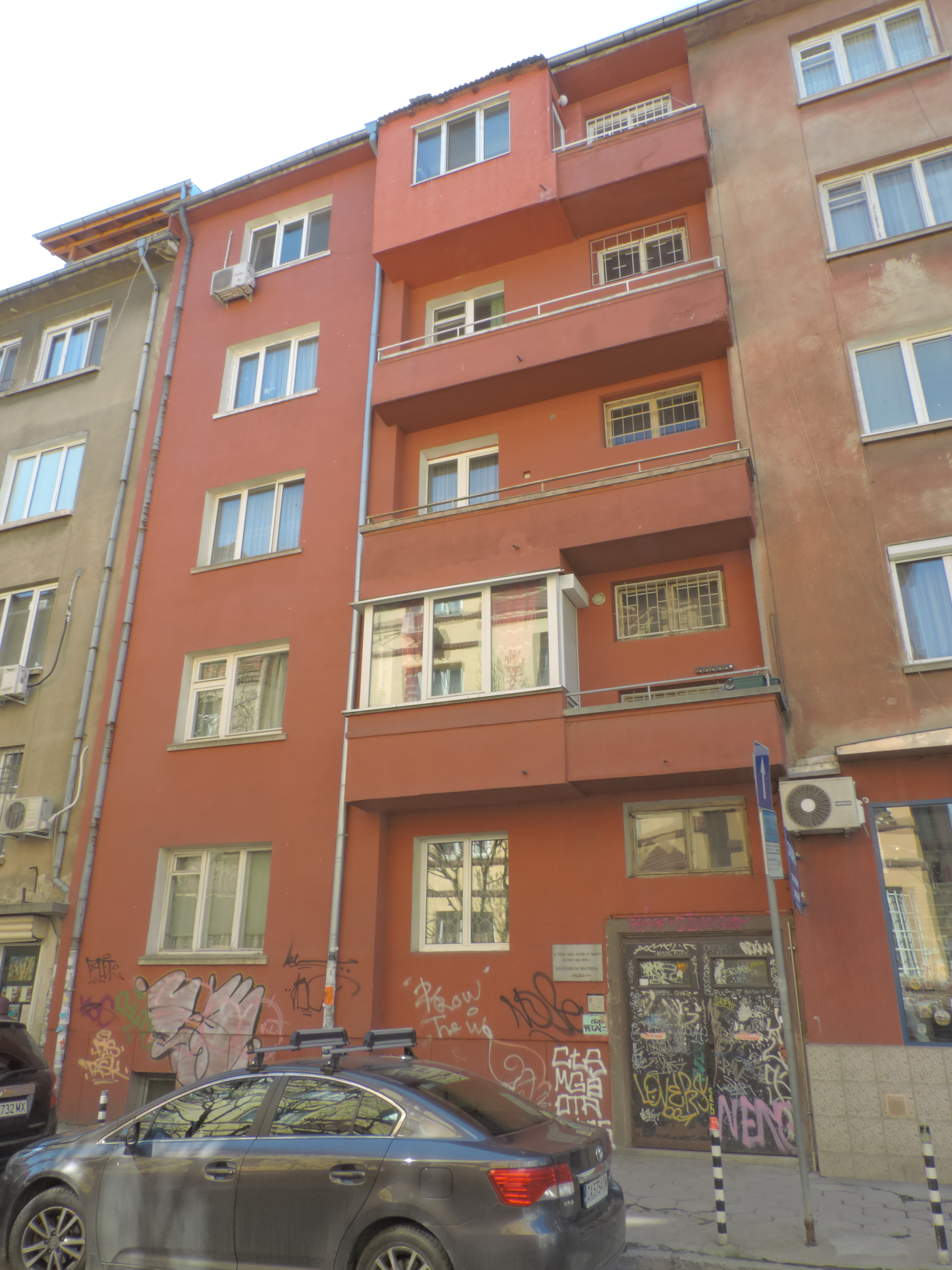 The house in which Elisaveta Bagriana lived and worked from 1957 to 1991 year, 58 Neofit Rilska, Sofia, Bulgaria